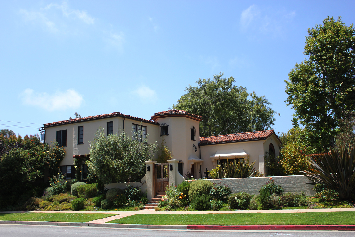 Typical home in the North of Montana neighborhood in Santa Monica, California - Zip code 90402, among the most expensive in California and in the U.S.